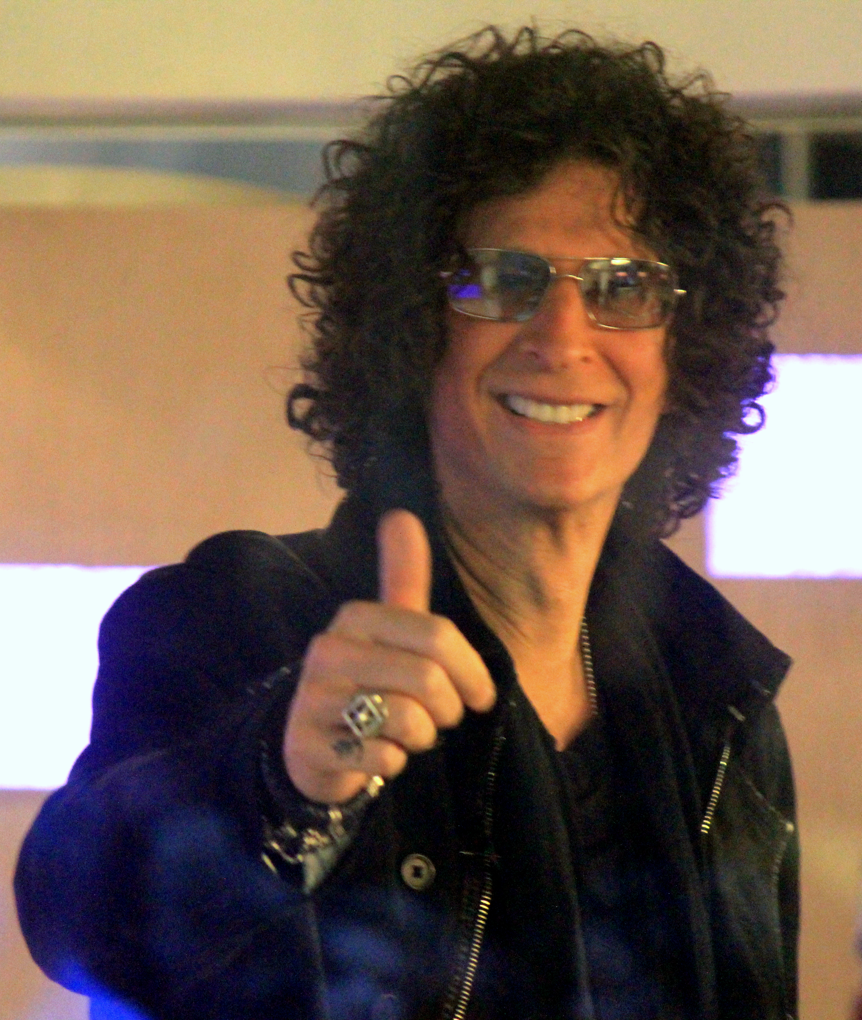 Just before his interview on the Today Show